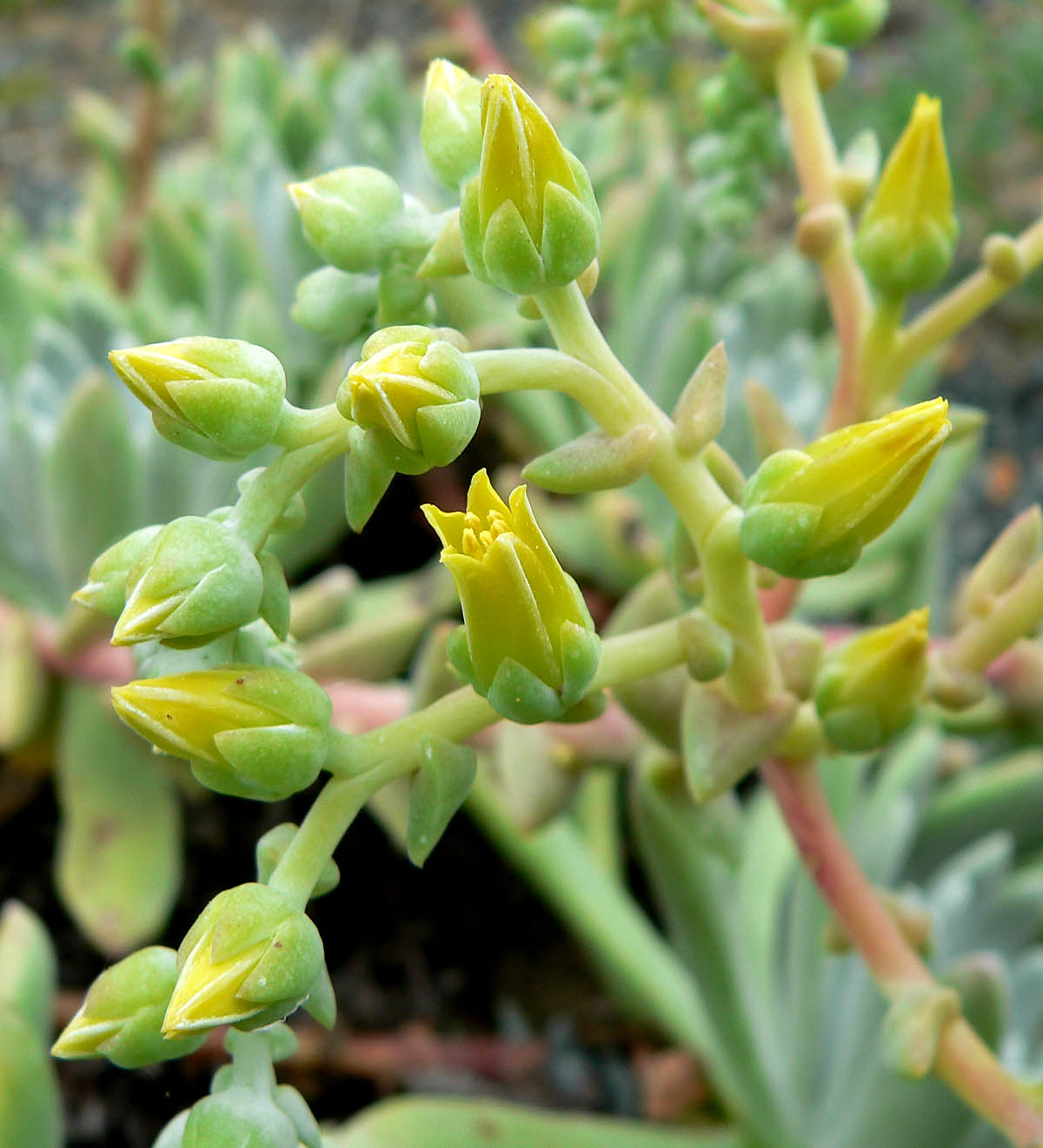 Photo of Dudleya greenei at the University of California Botanical Garden